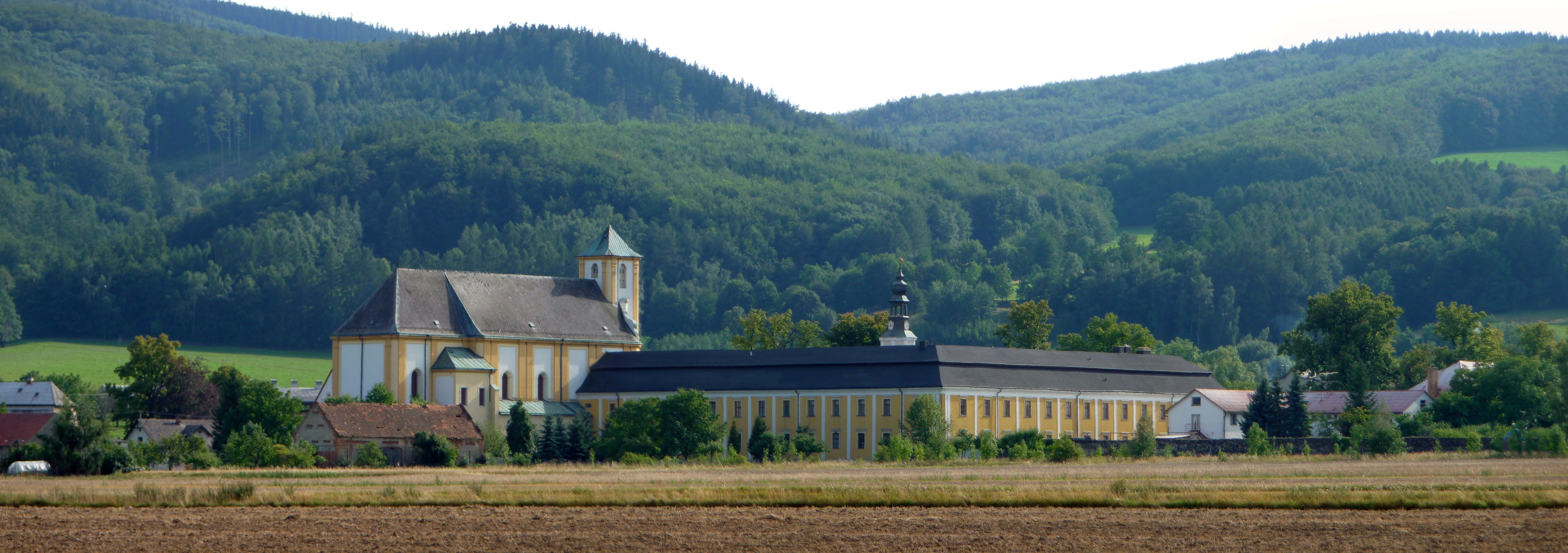 Former piarist college and the Church of the Visitation of the Virgin Mary in Bílá Voda (Olomouc Region, Czechia).